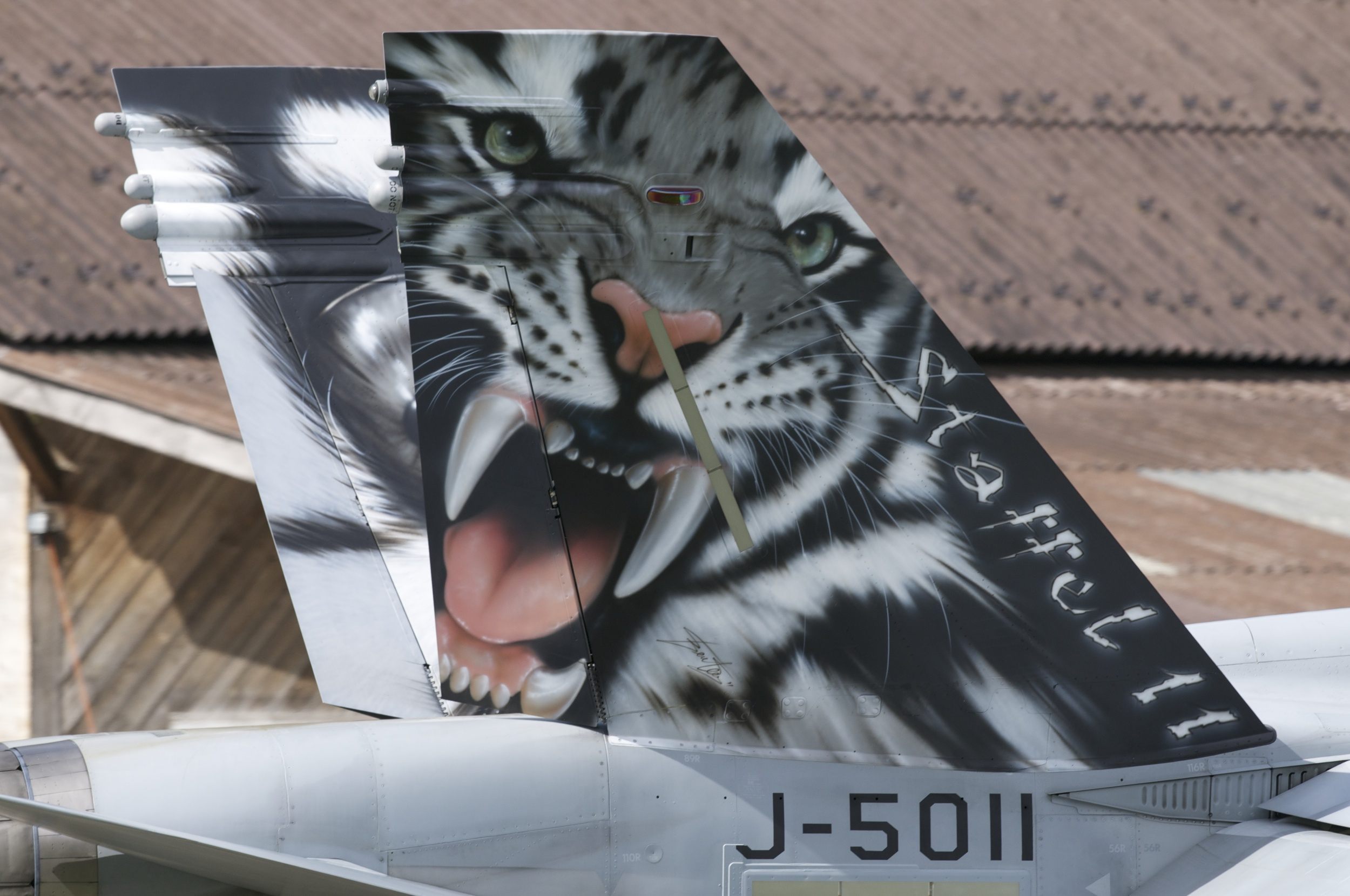 Meiringen Airbase on a busy day. Switzerland